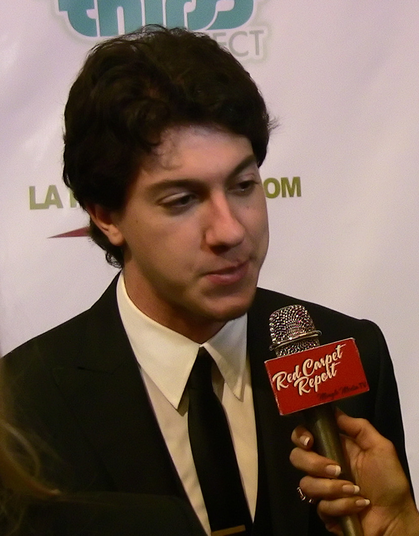 Actor Jared Kusnitz at the 2010 Thirst Project Gala Red Carpet